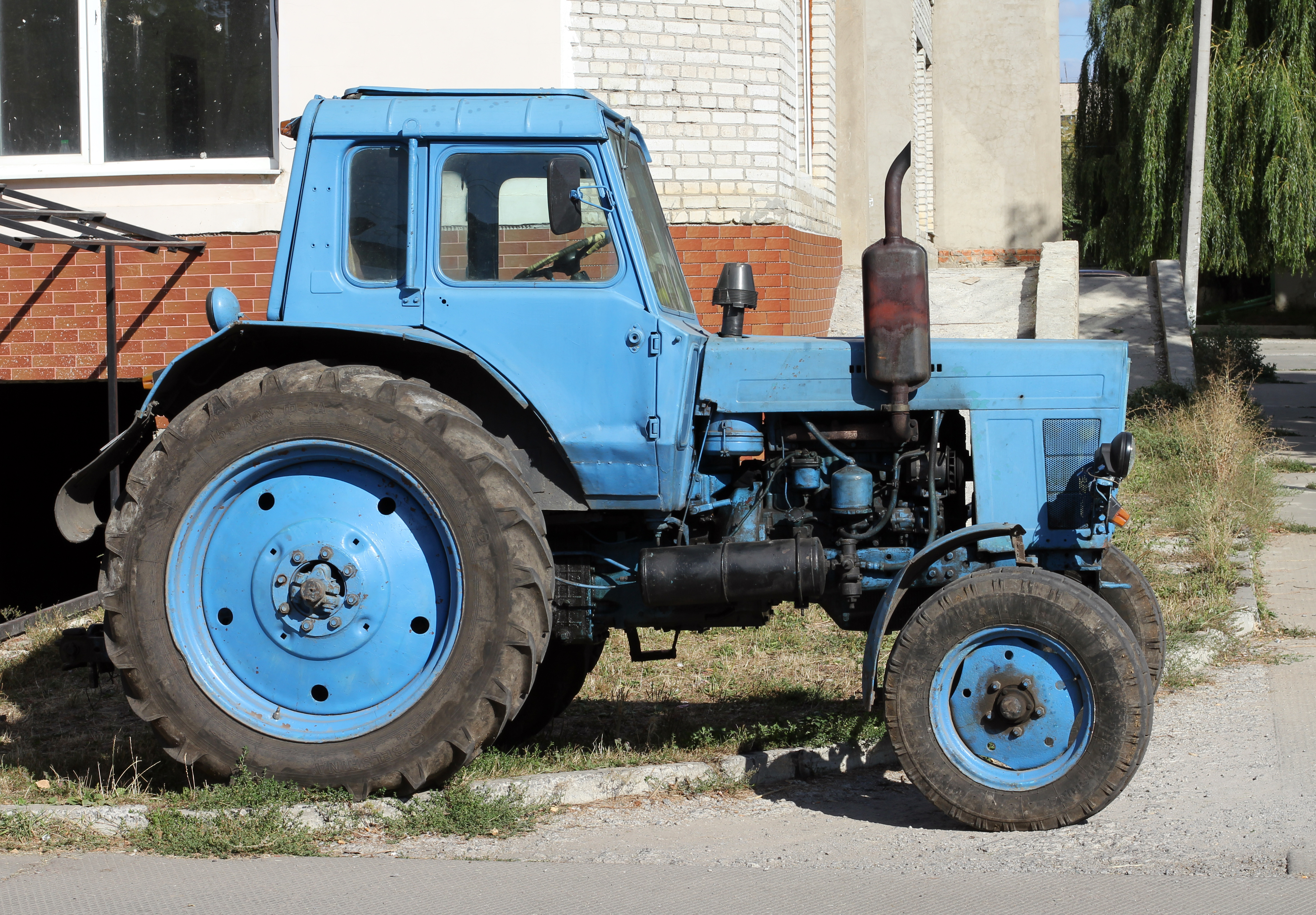 MTZ-80 tractor. Ukraine, Vinnitsa.